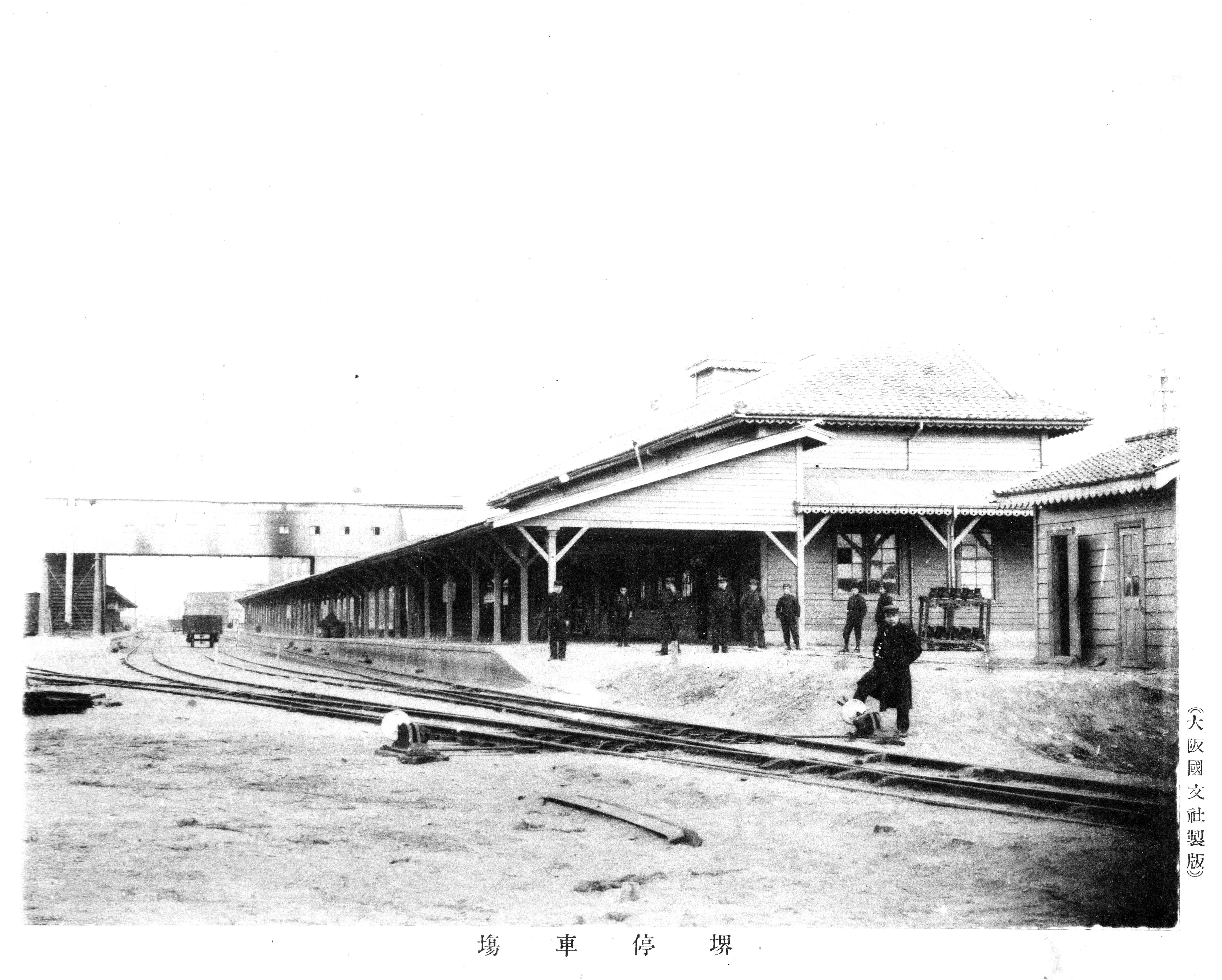 Sakai Station of Hankai Railway period